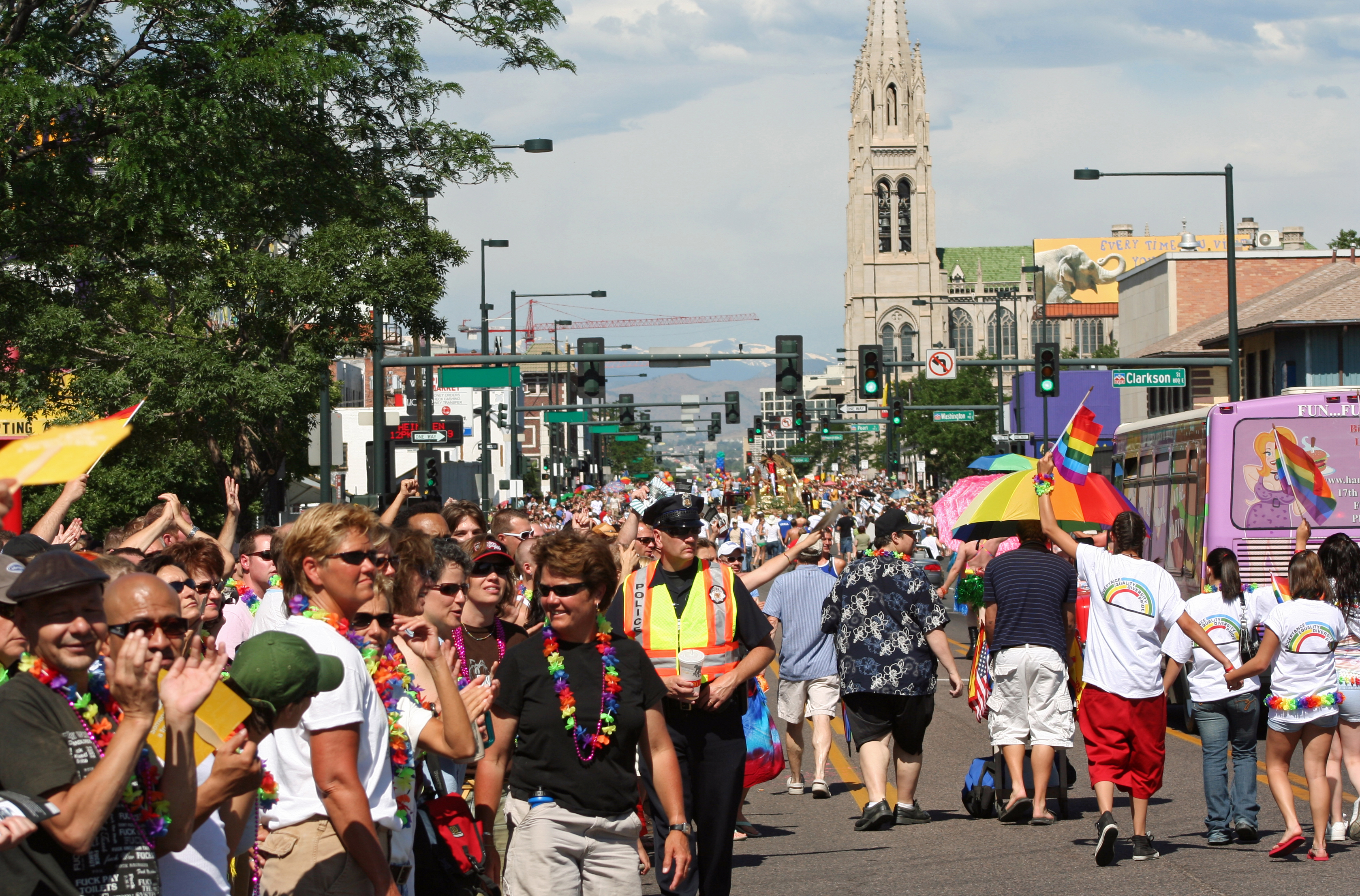 Pridefest, an annual celebration of the GLBT community, on Colfax Avenue in Denver, Colorado